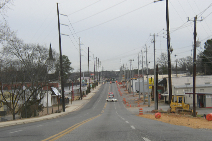 Alabama State Route 215 (University Boulevard) traveling east through Alberta City, Tuscaloosa, Alabama